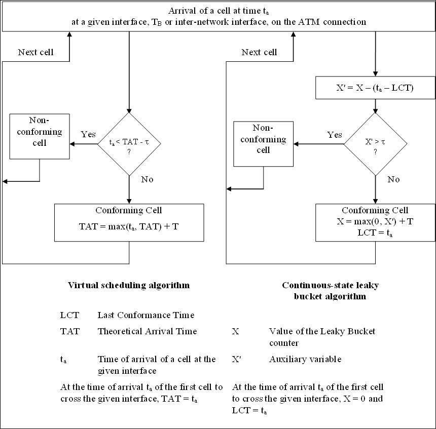 Flowchart for the Generic Cell Rate Algorithm: Not a reproduction, but own artwork (MS Draw) based on the figure in ITU-T I.371 Annex A.